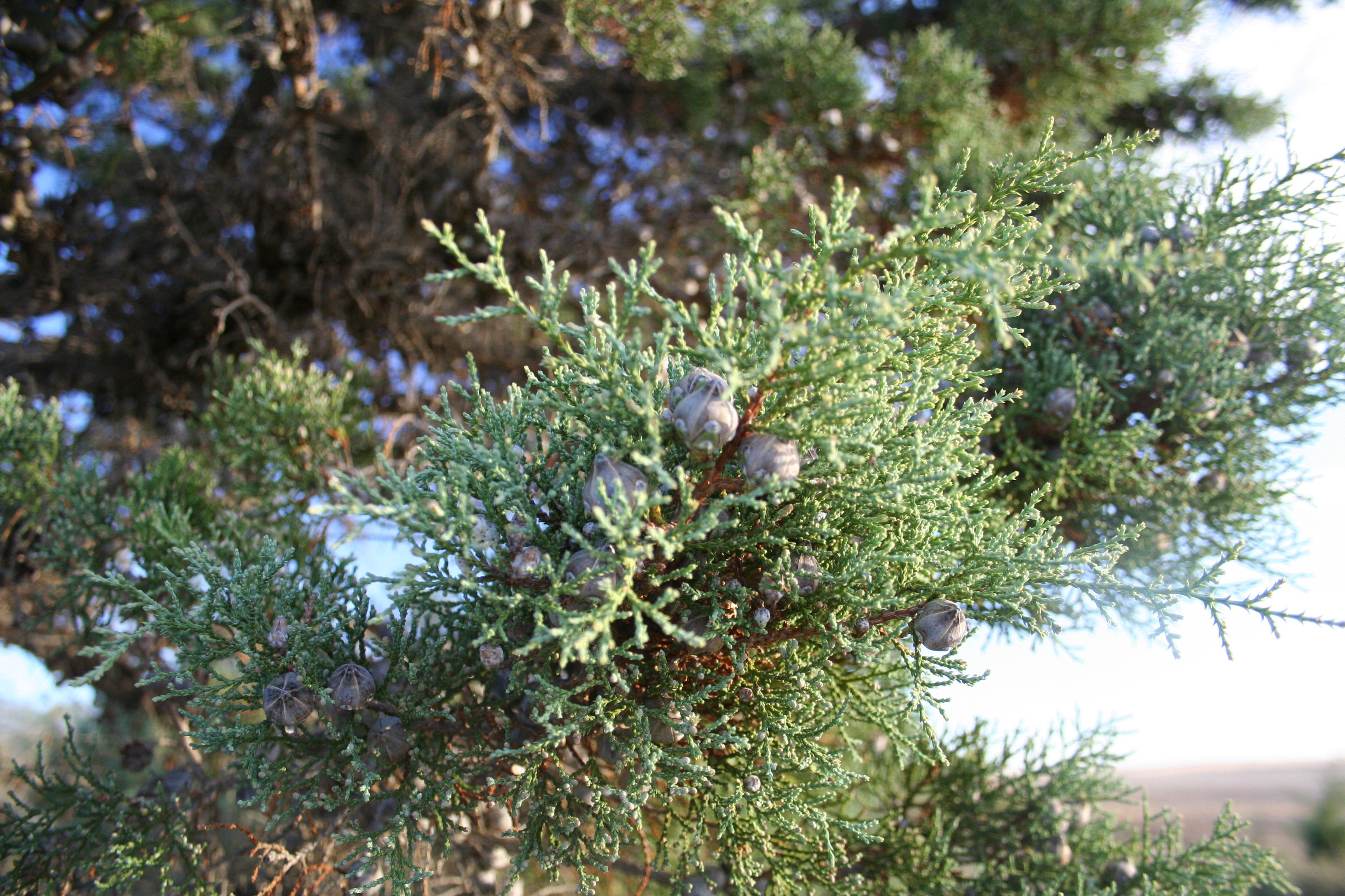 Actinostrobos arenarius fruits, near Murchison River WA